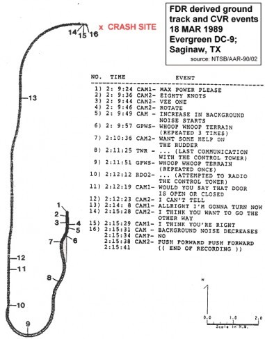 Evergreen Flight 17（N931F）route